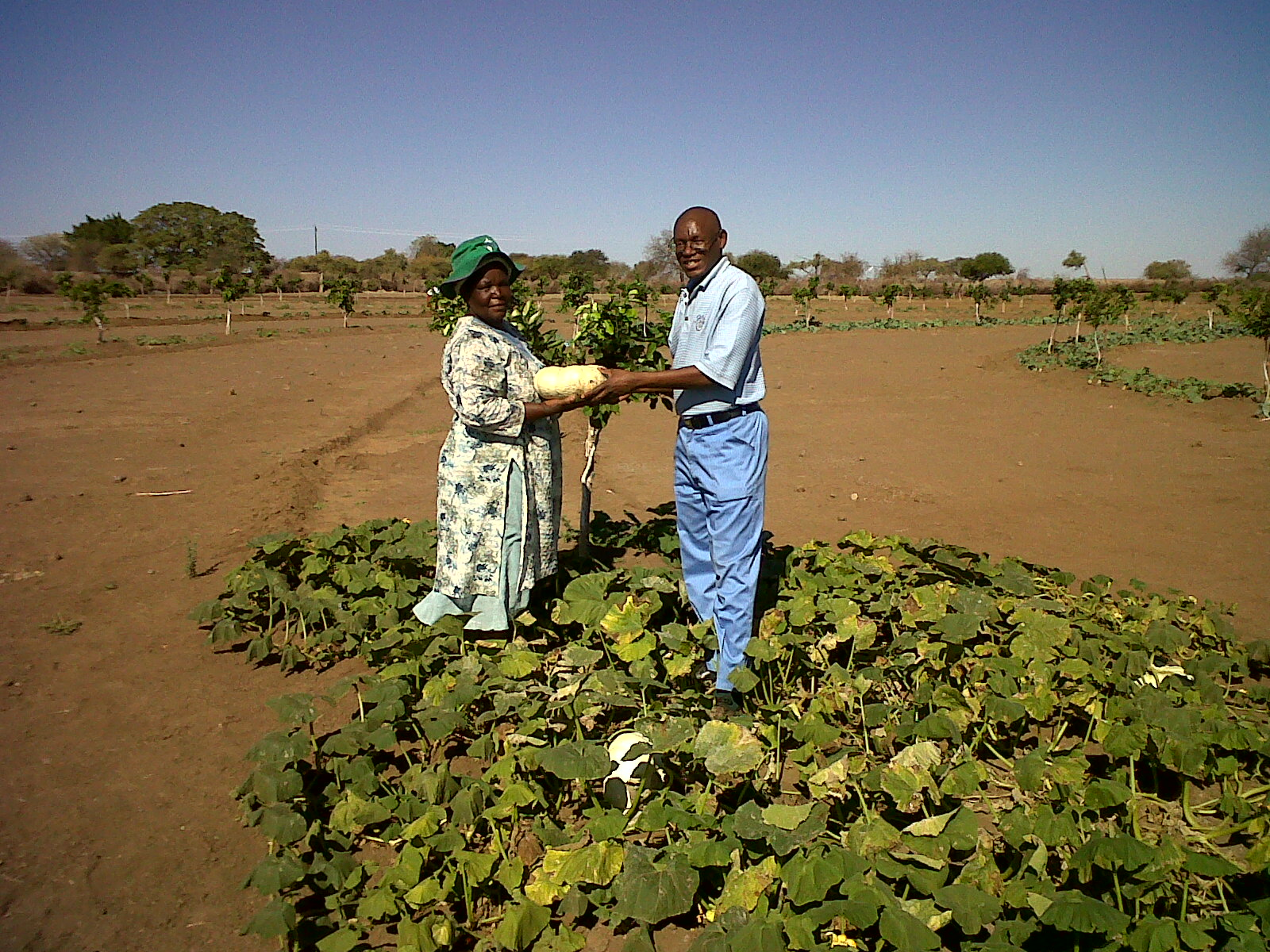 this is the produce of hardworking women. This is an image of "African people at work" from Zimbabwe